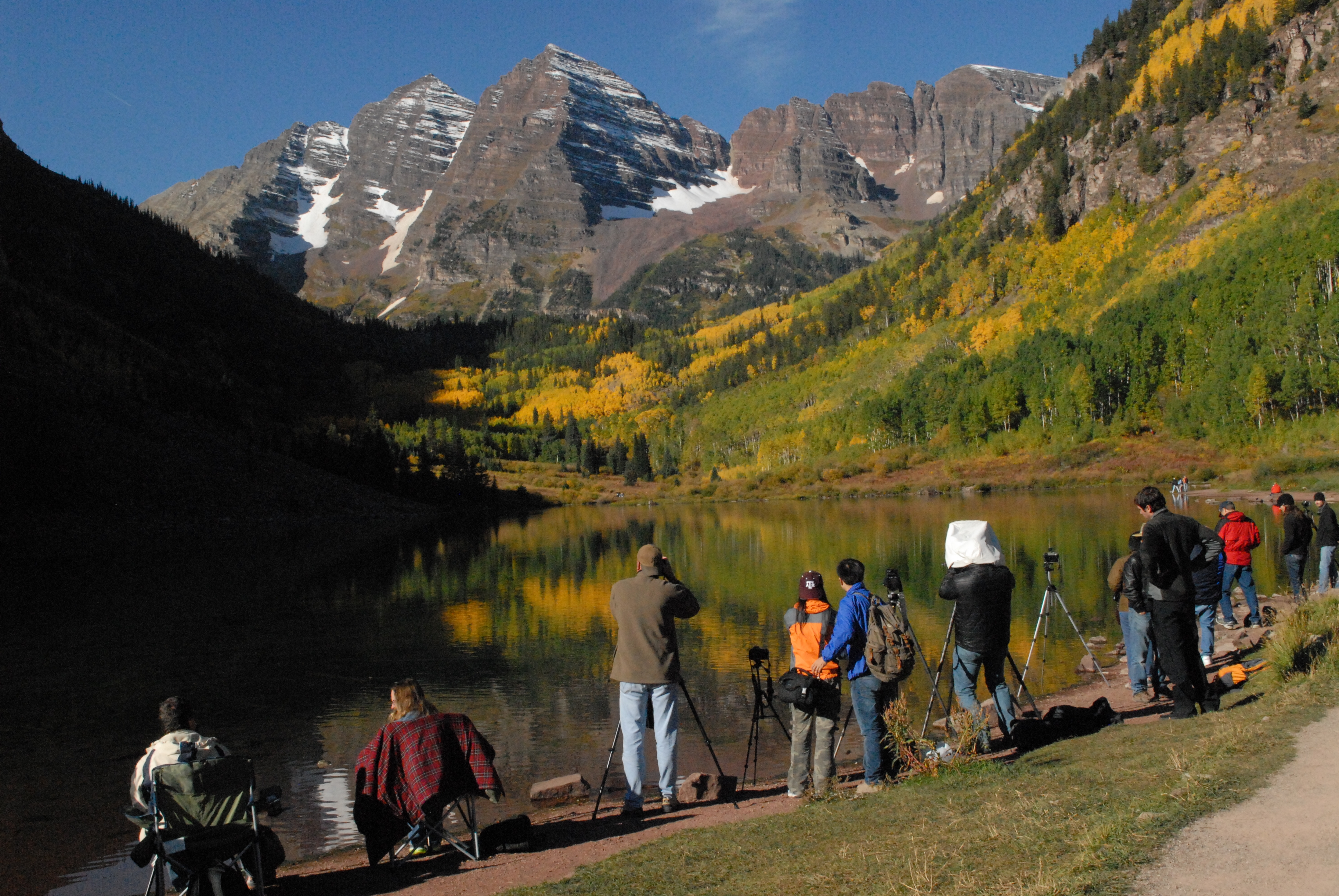 Maroon Bells, two peaks in the Elk Mountains that are less than half-mile apart, are reflected on Maroon Lake. The site is one of most photographed peaks in Colorado and among one of the most spectacular views on the White River National Forest. The area is both vision of power and peace for outdoor photographers, who line the shore of the lake. USDA Photo by Scott Mecum.